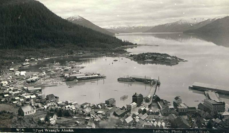 Wrangell, Alaska in 1897.